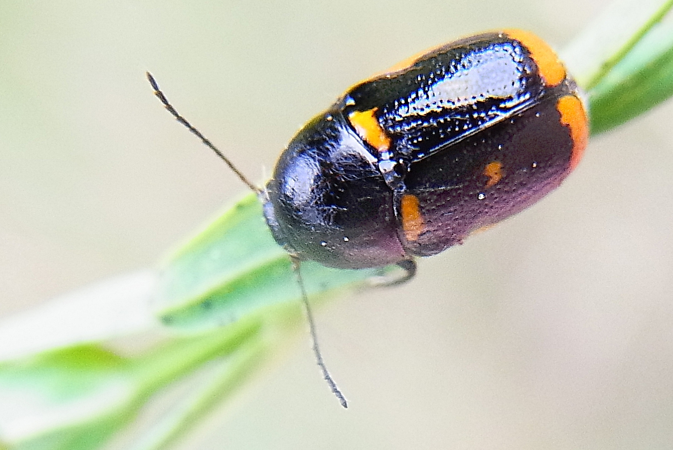 Cryptocephalus sexpustulatus near Manresa, Cataluña, Spain at 2013-06-21